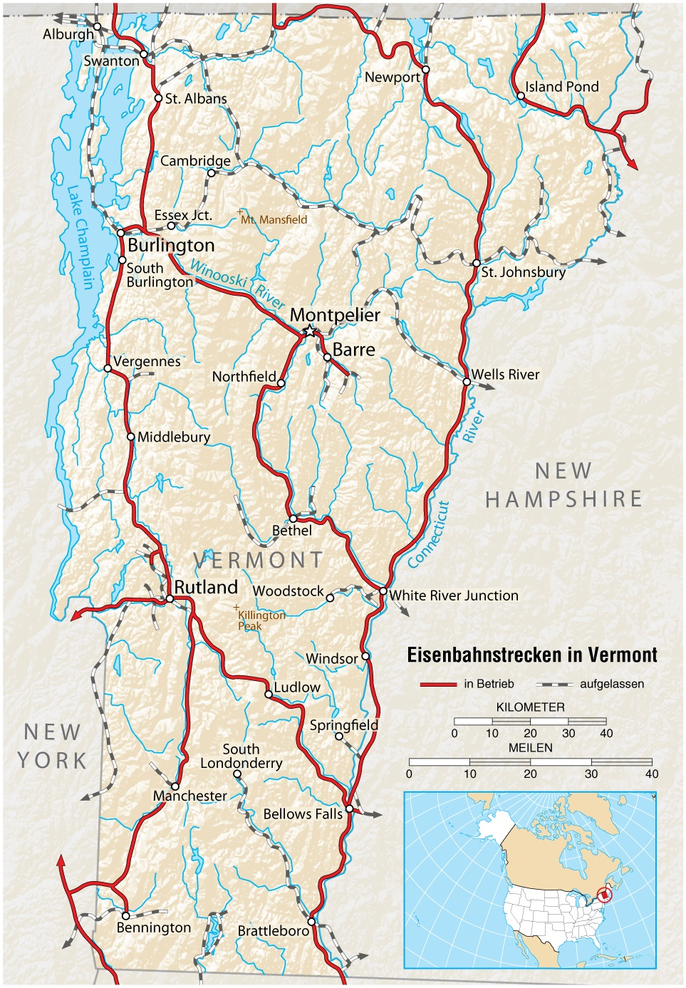 Map of the Vermont railway lines